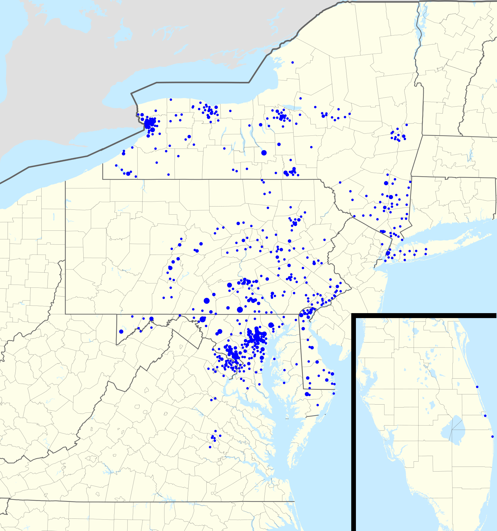 Footprint of M&T, according to FDIC, as of 31 July 2011. South Florida branches are in the lower-righthand side of the image. Cities with more than one branch have progressively larger points.